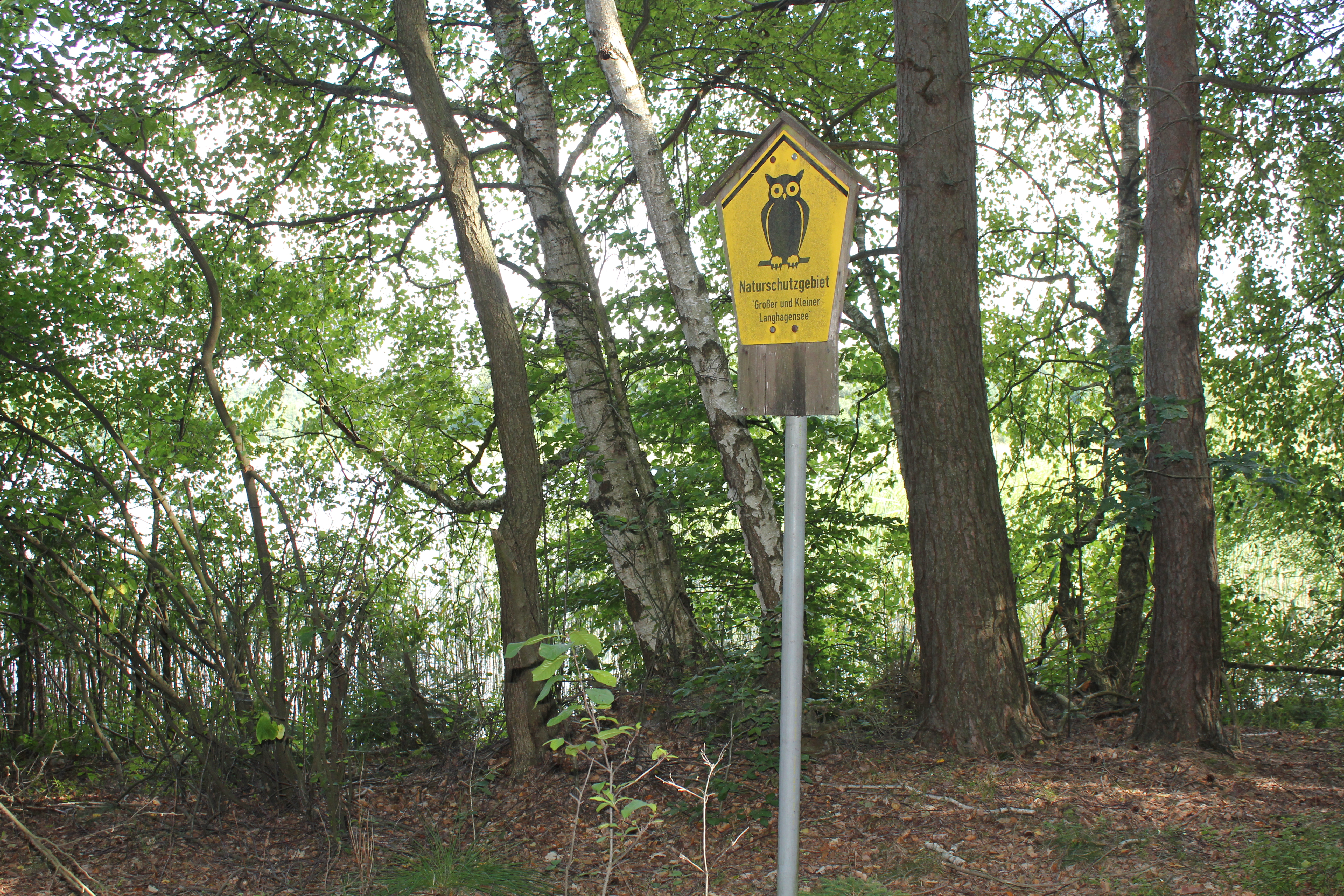 The lake Langhagensee